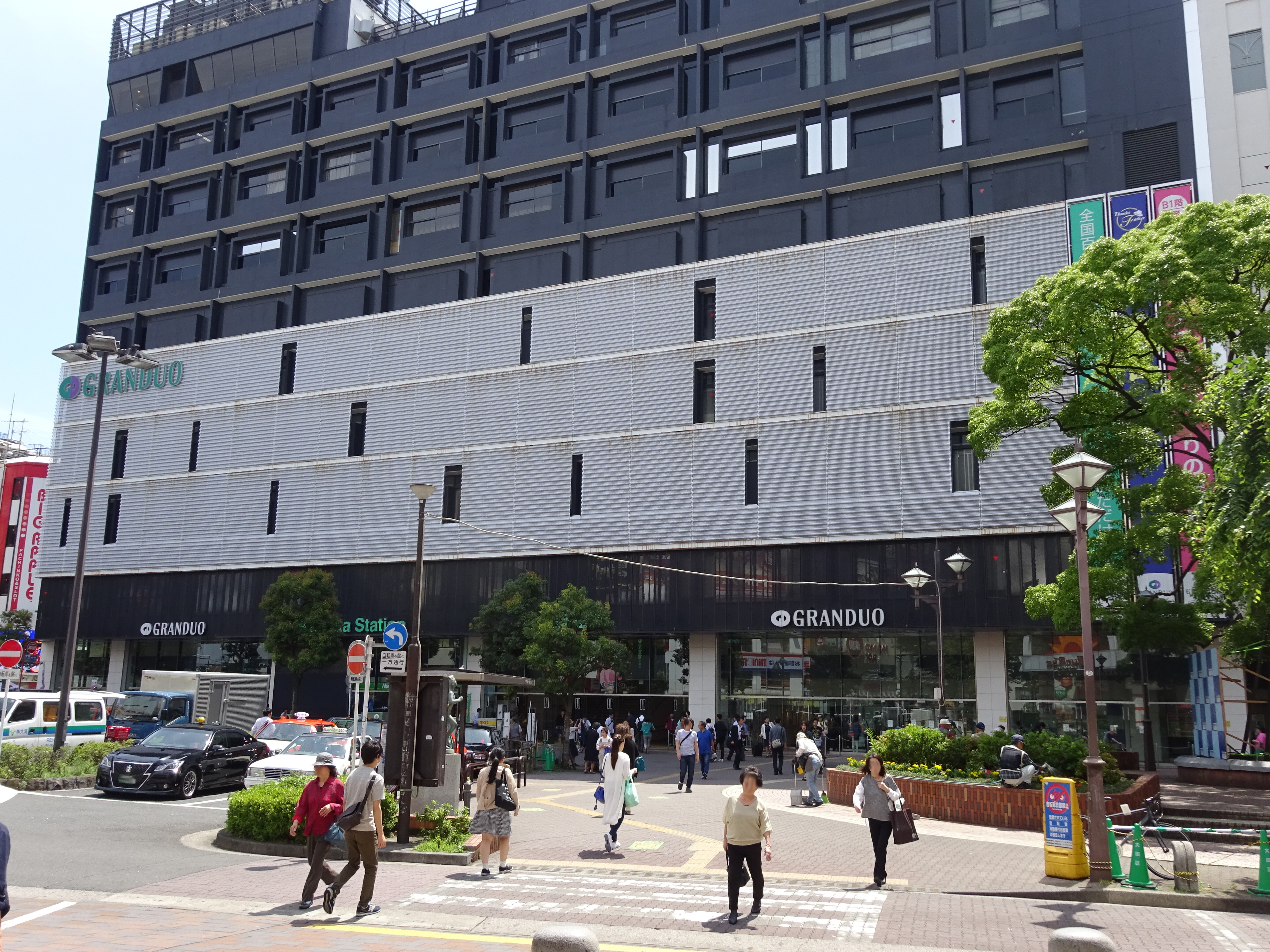 West Entrance of Kamata Station